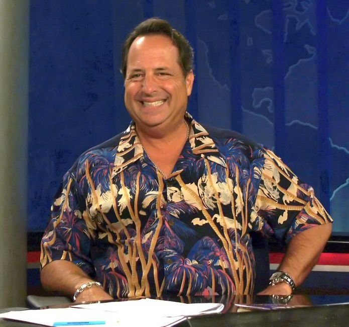 Photo of Jon Lovitz when he was interviewed at KUSI-TV In San Diego Please acknowledge "Phil Konstantin" as the creator of this photograph.